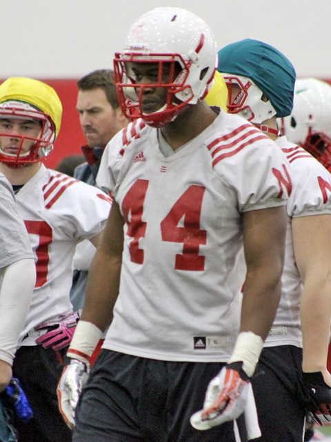 Randy Gregory-Spring ball 2014